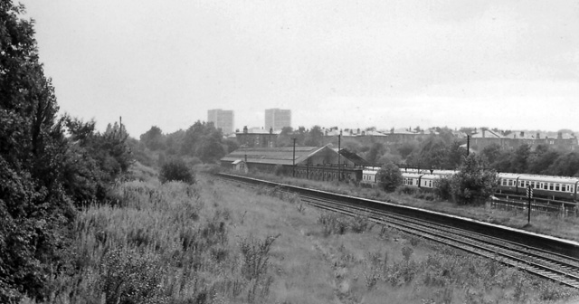 Bellahouston Station. Near to Pollokshields, Glasgow, Great Britain. View SW, towards Paisley (Canal); ex-G&SW Glasgow (St Enoch) - Paisley (Canal) line. Closed 20/9/54 (goods 7/9/64); replaced 28/7/90 by present Dumbreck Station, when line reopened. On far side were the Bellahouston Carriage Sidings.